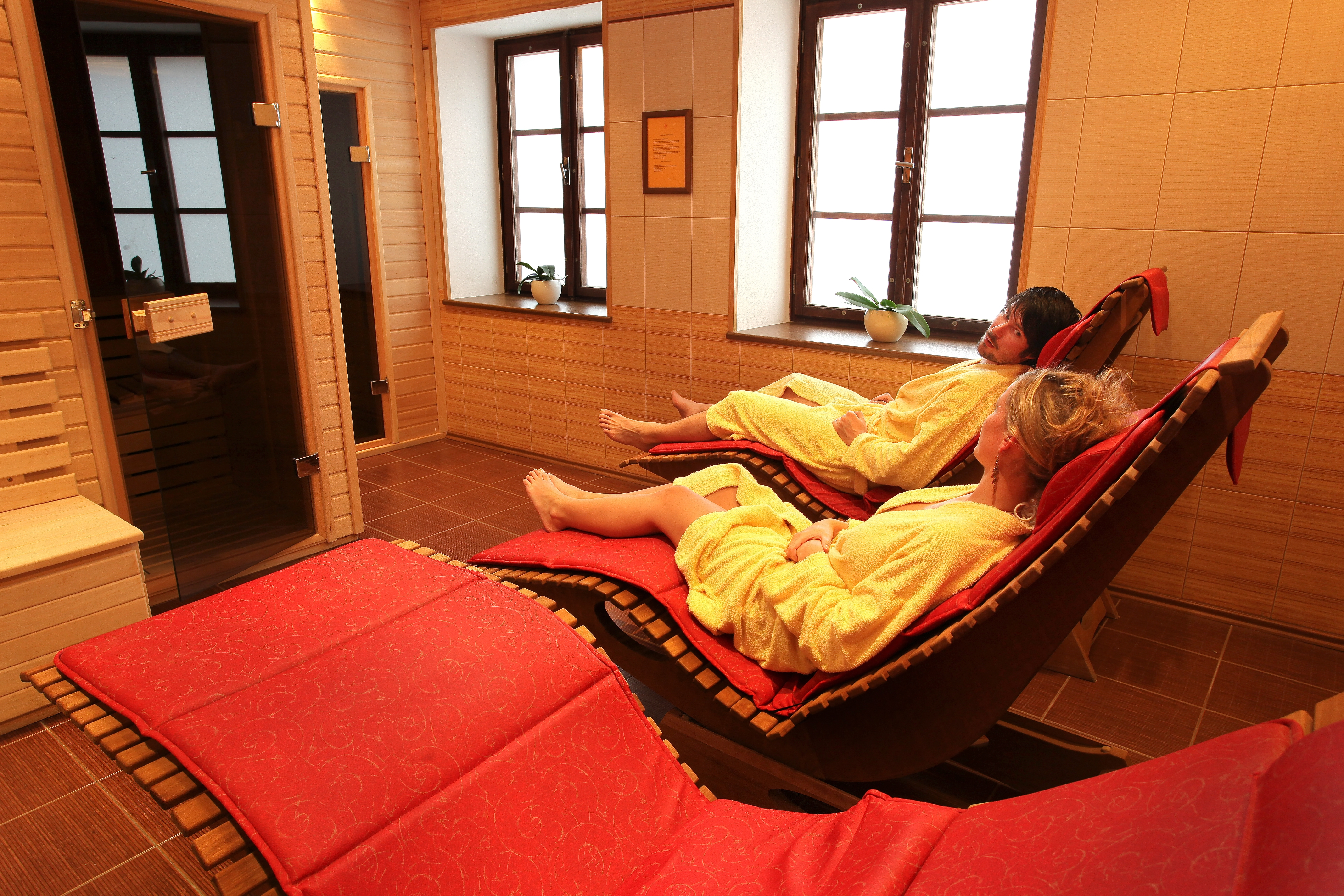 Rest area before Infra - Zlatá Hvězda Wellness Center Třeboň